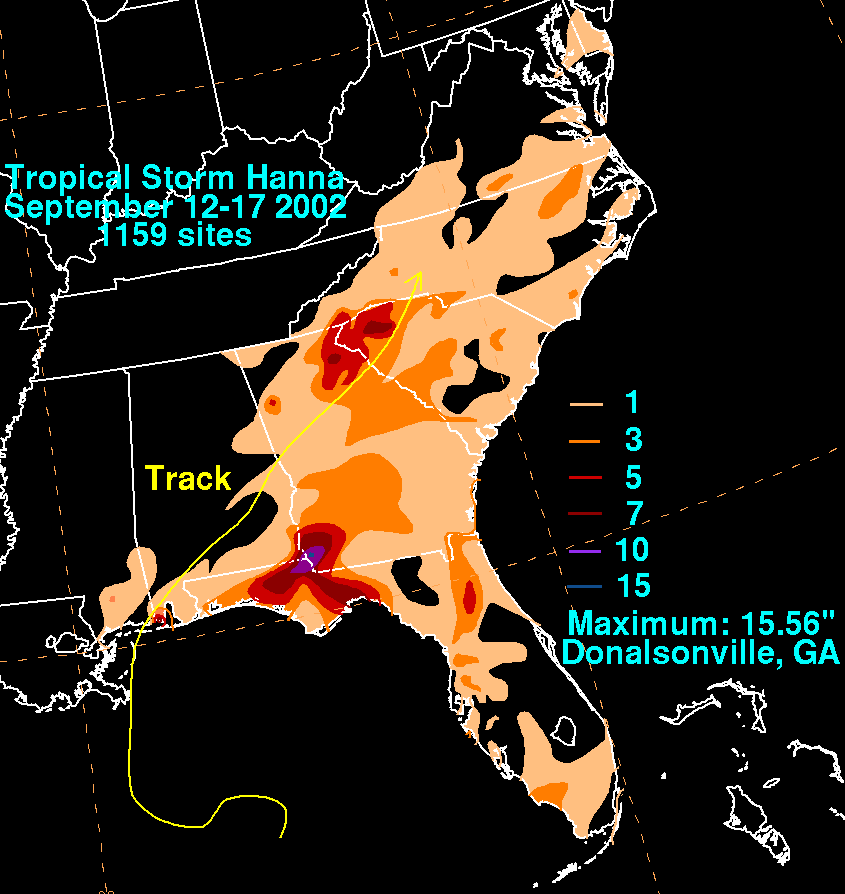 Rainfall produced by Tropical Storm Hanna during September 2002.